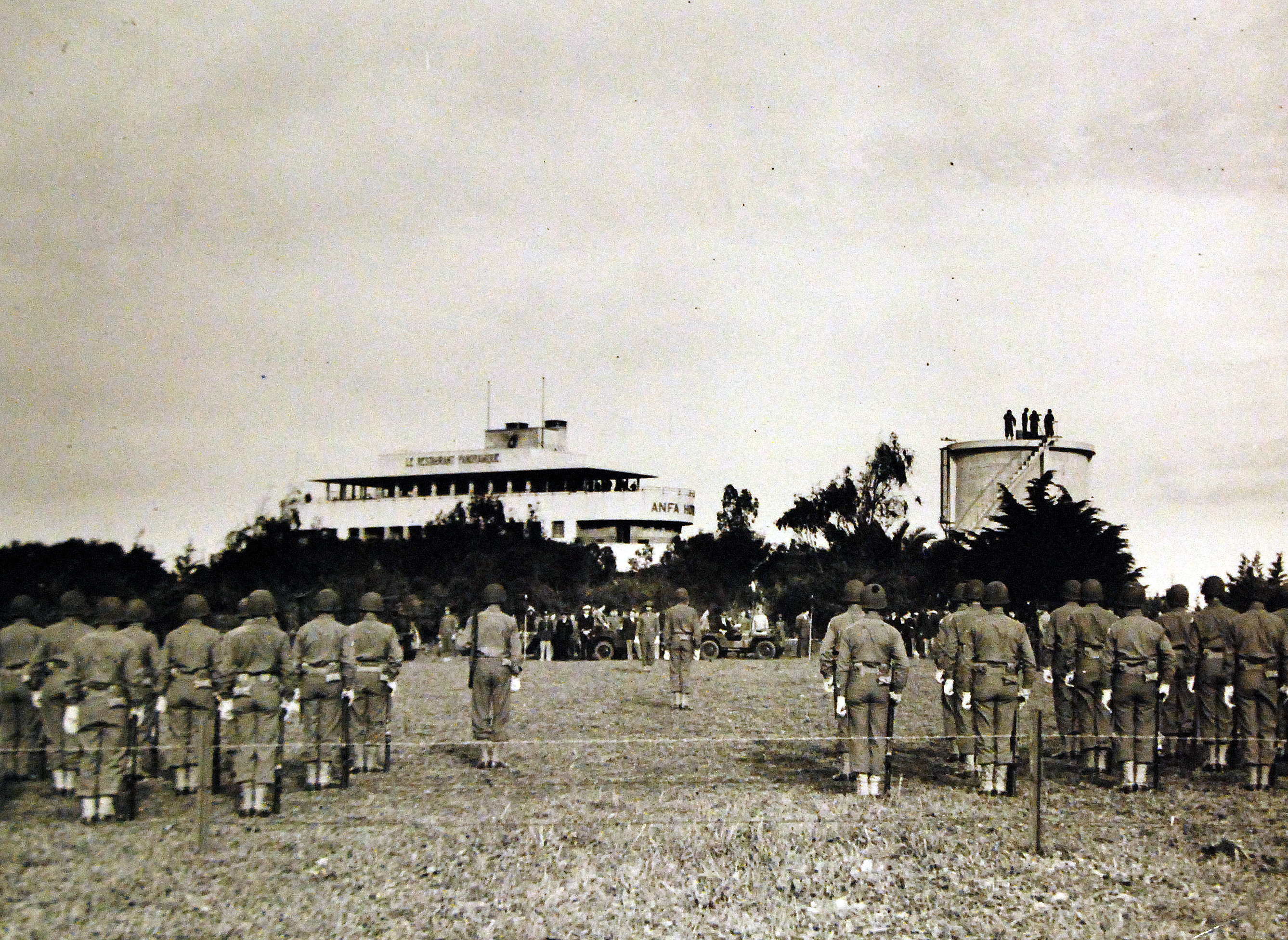 Lot 11567-5: Casablanca Conference, French Morocco, 14-24 January 1943. President Franklin D. Roosevelt reviewing American troops in front of the Anfa Hotel, during the Casablanca Conference. Office of War Information photograph. (2016/01/29).